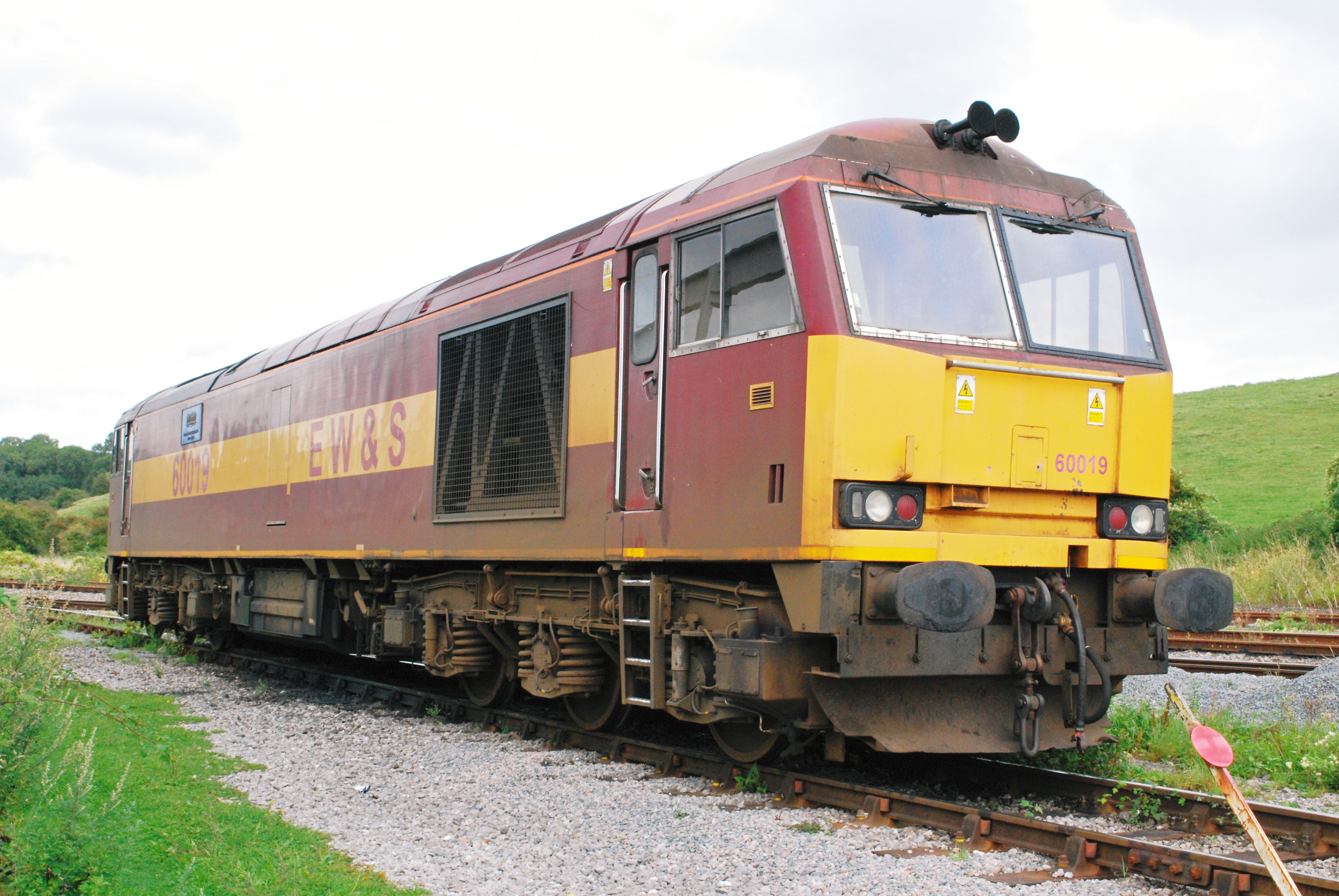 Brush Class 60 3,100 hp Co-Co No.60 019 "Pathfinder Tours" of DBS in EWS livery between duties at Westerleigh Murco oil depot, 8/09.